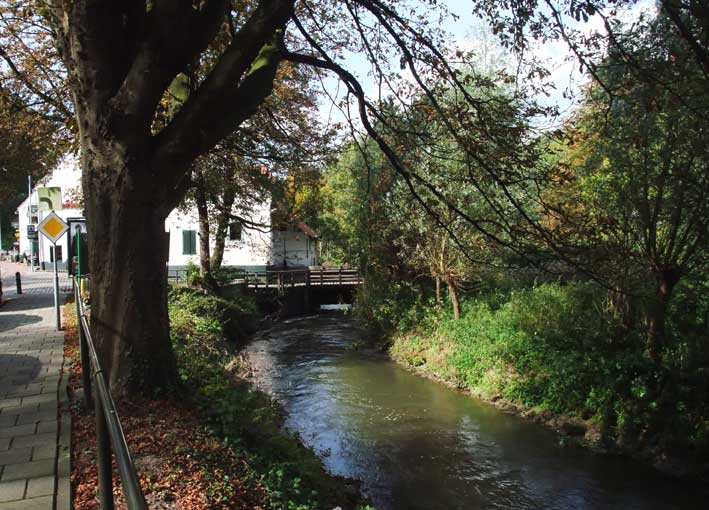 Watermill in Geulhem Limburgs: Geulemermeule